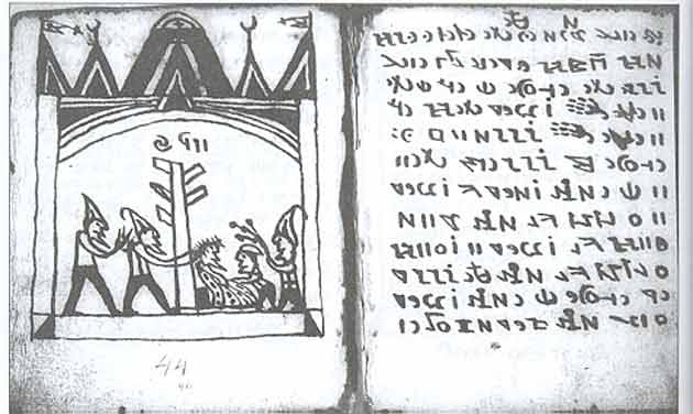 page 44 of Rohonc Codex